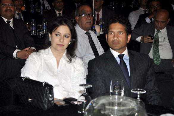 Sachin Tendulkar and his wife at Bloomberg TV Autocar Awards